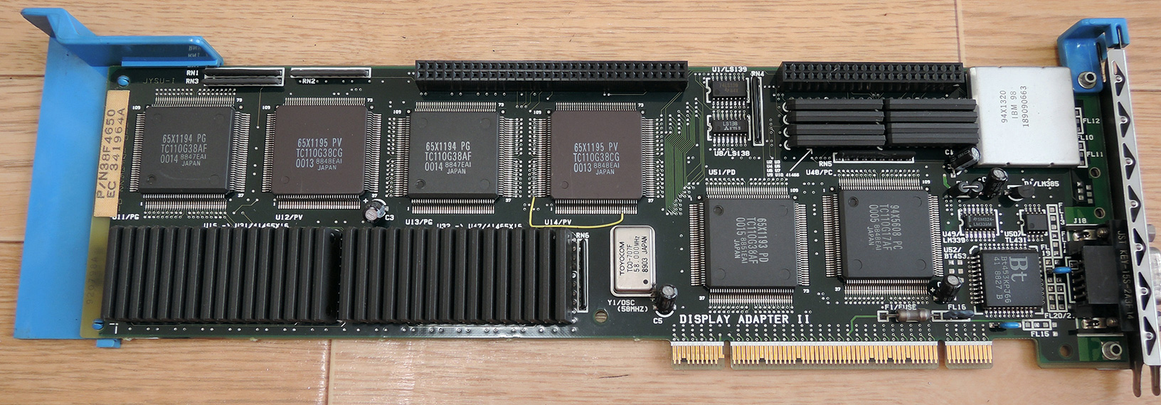 The Display Adapter II, Japanese video card for 16-bit Micro Channel with Auxiliary Video Extension slot of IBM Personal System/55. (P/N: 38F4650) The card has 1 MB video RAM and the ability to display 1024 x 768 pixels graphic screen in 256 of 262,144 colors.